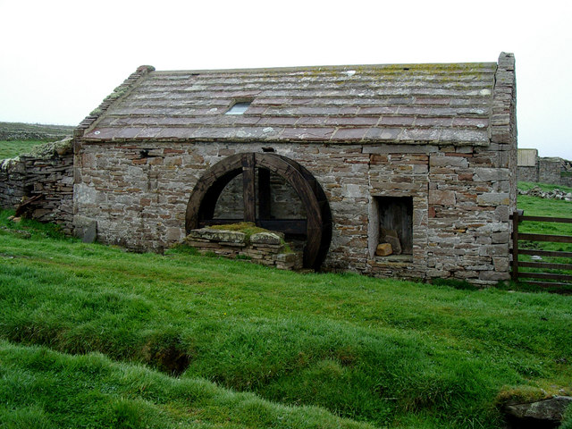 Threshing mill at Red House. Partly restored